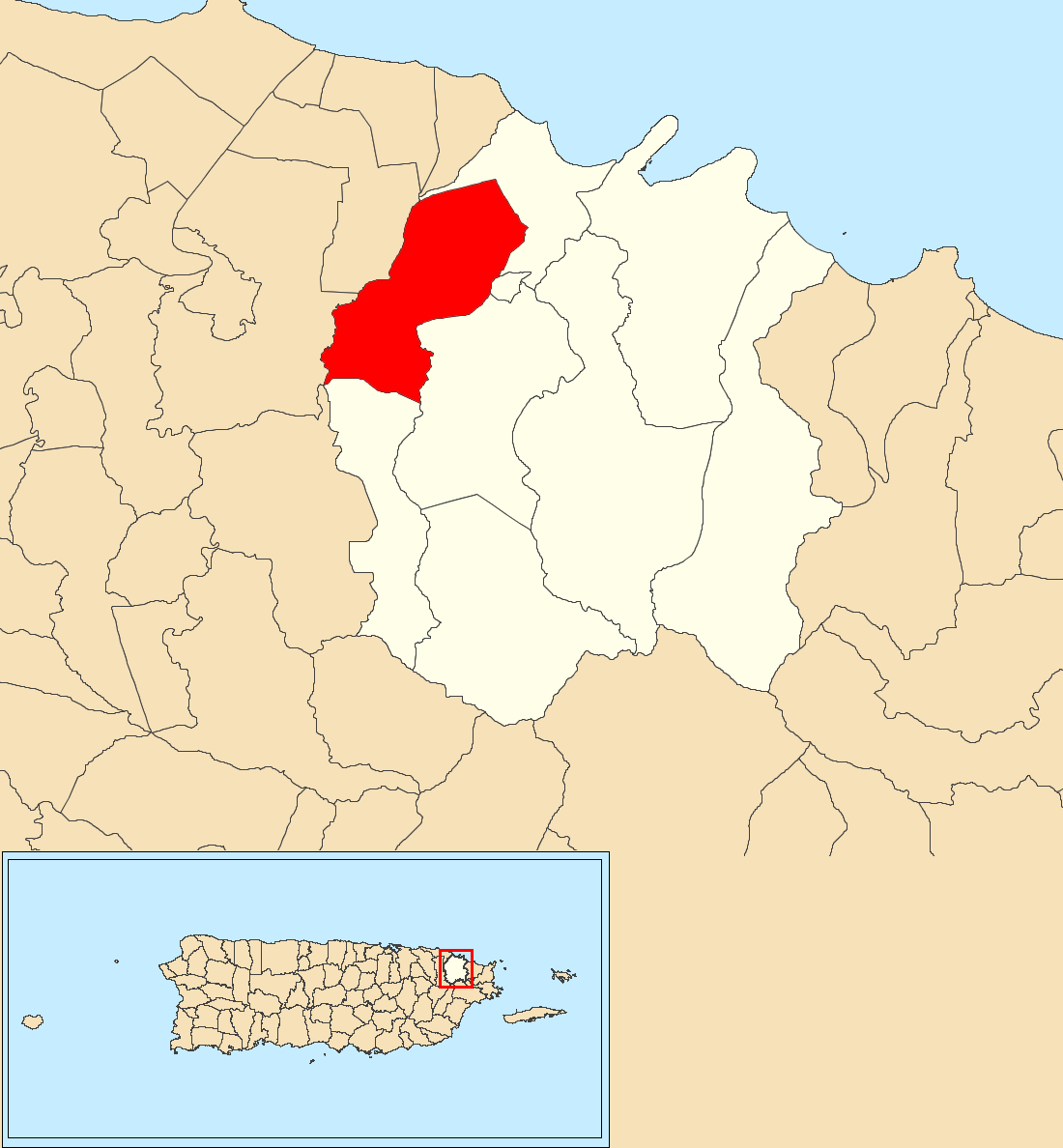 Ciénaga Baja, Río Grande, Puerto Rico locator map